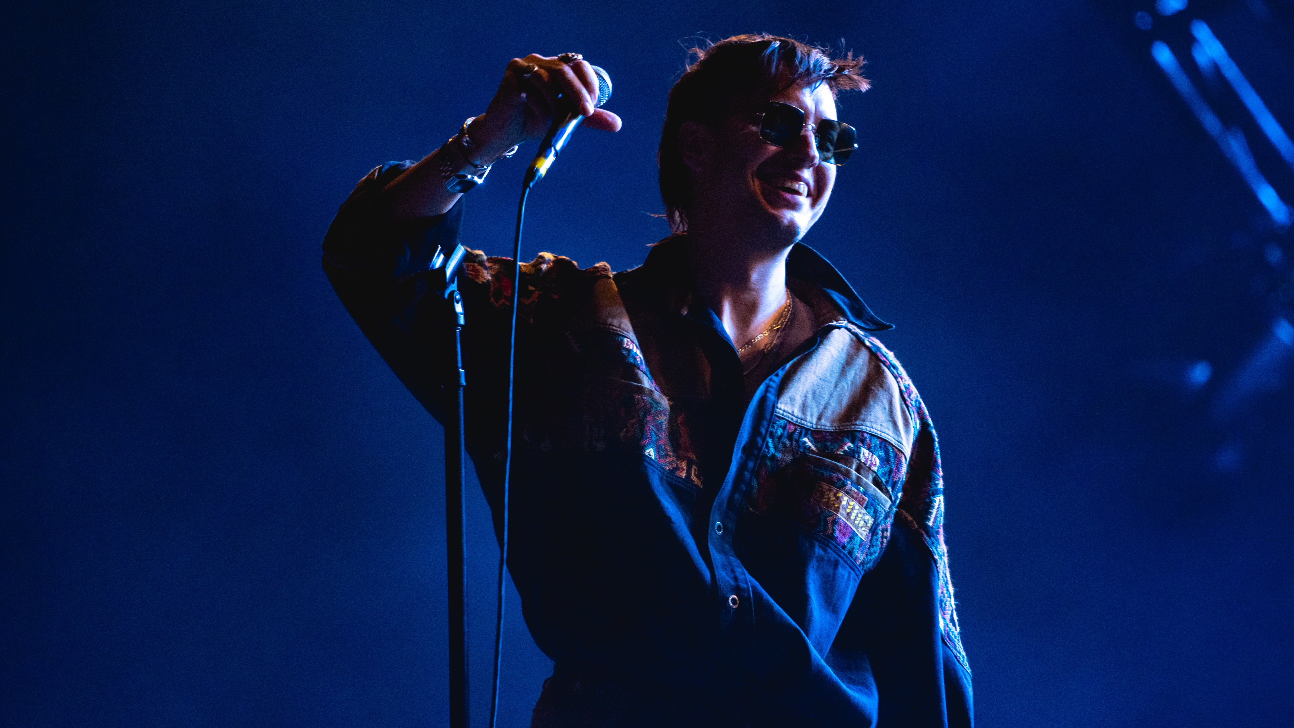 The Strokes in Brooklyn